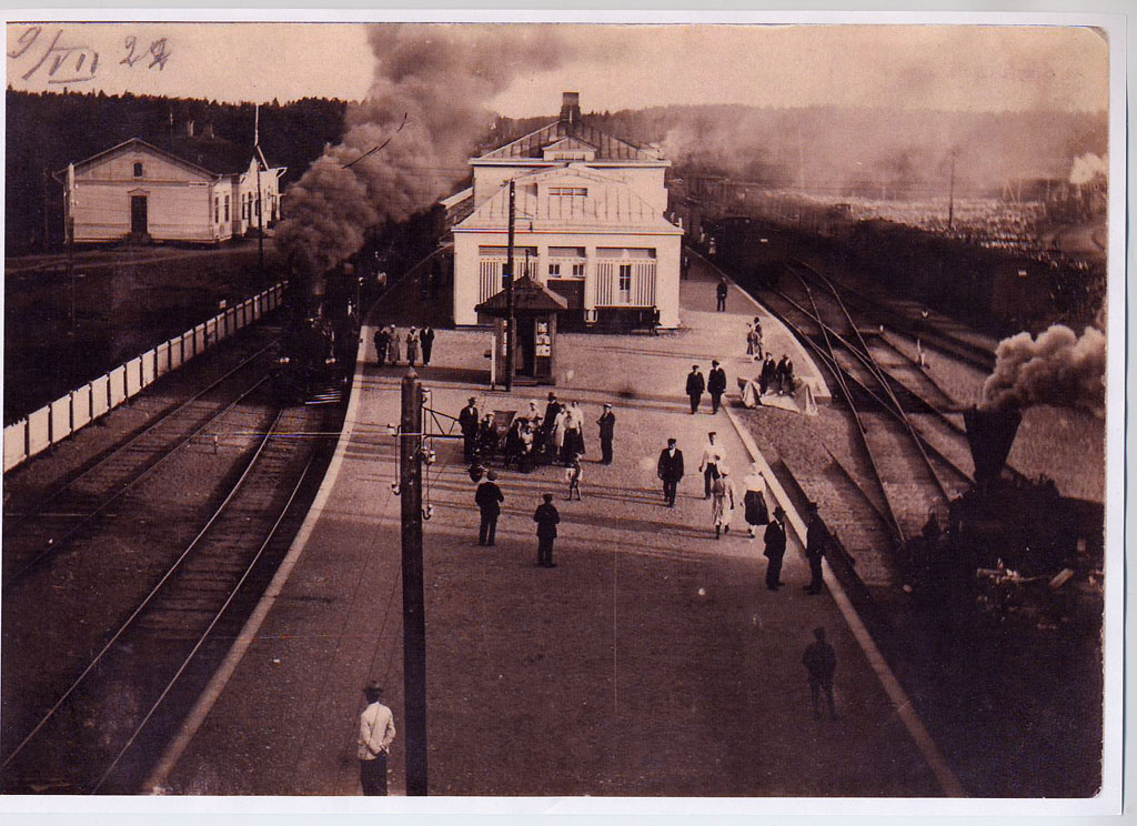 Pieksämäki railway station in Pieksämäki, Finland. Photograph taken on 1927-07-09.